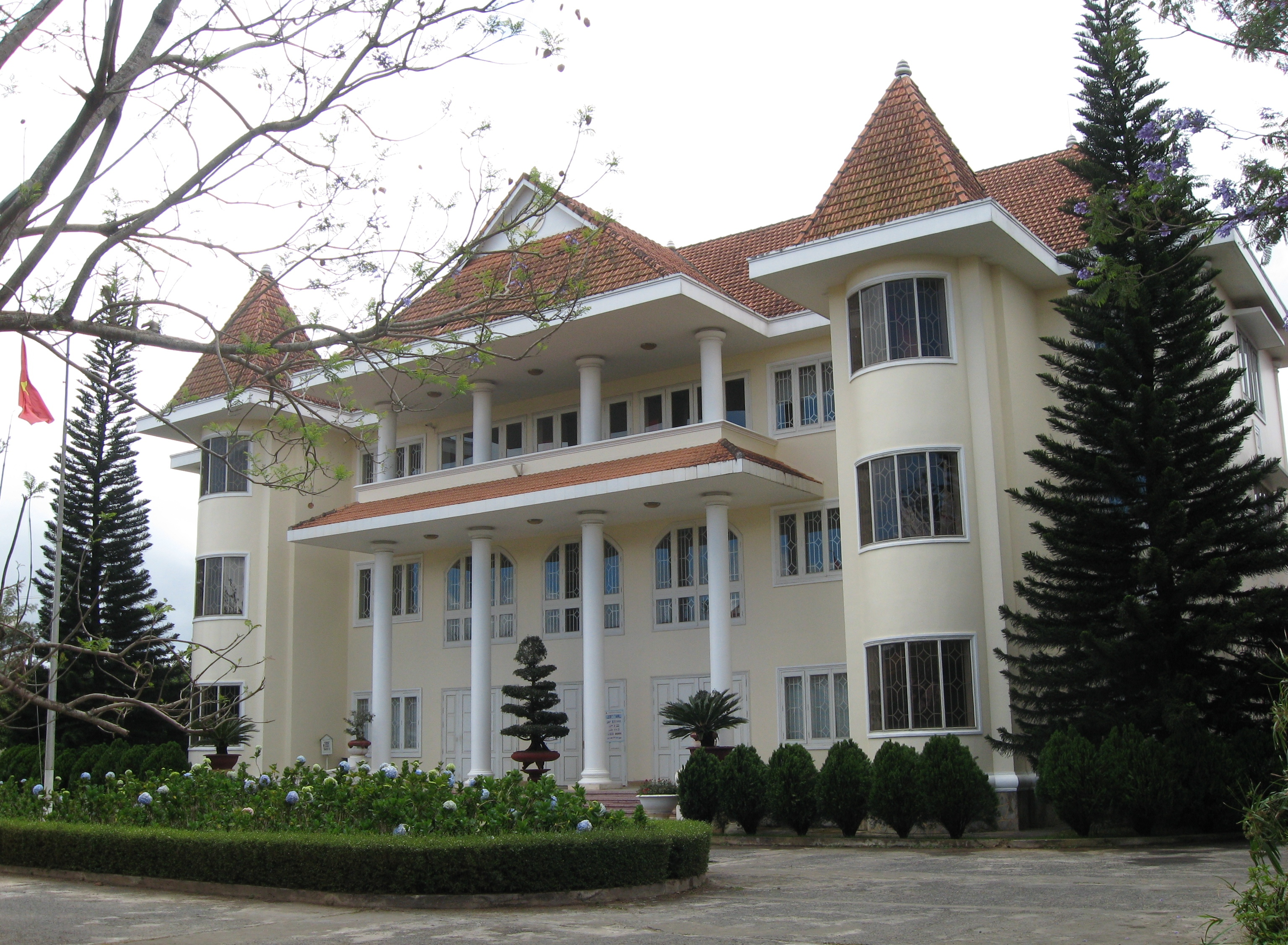 Lam Dong State Treasury